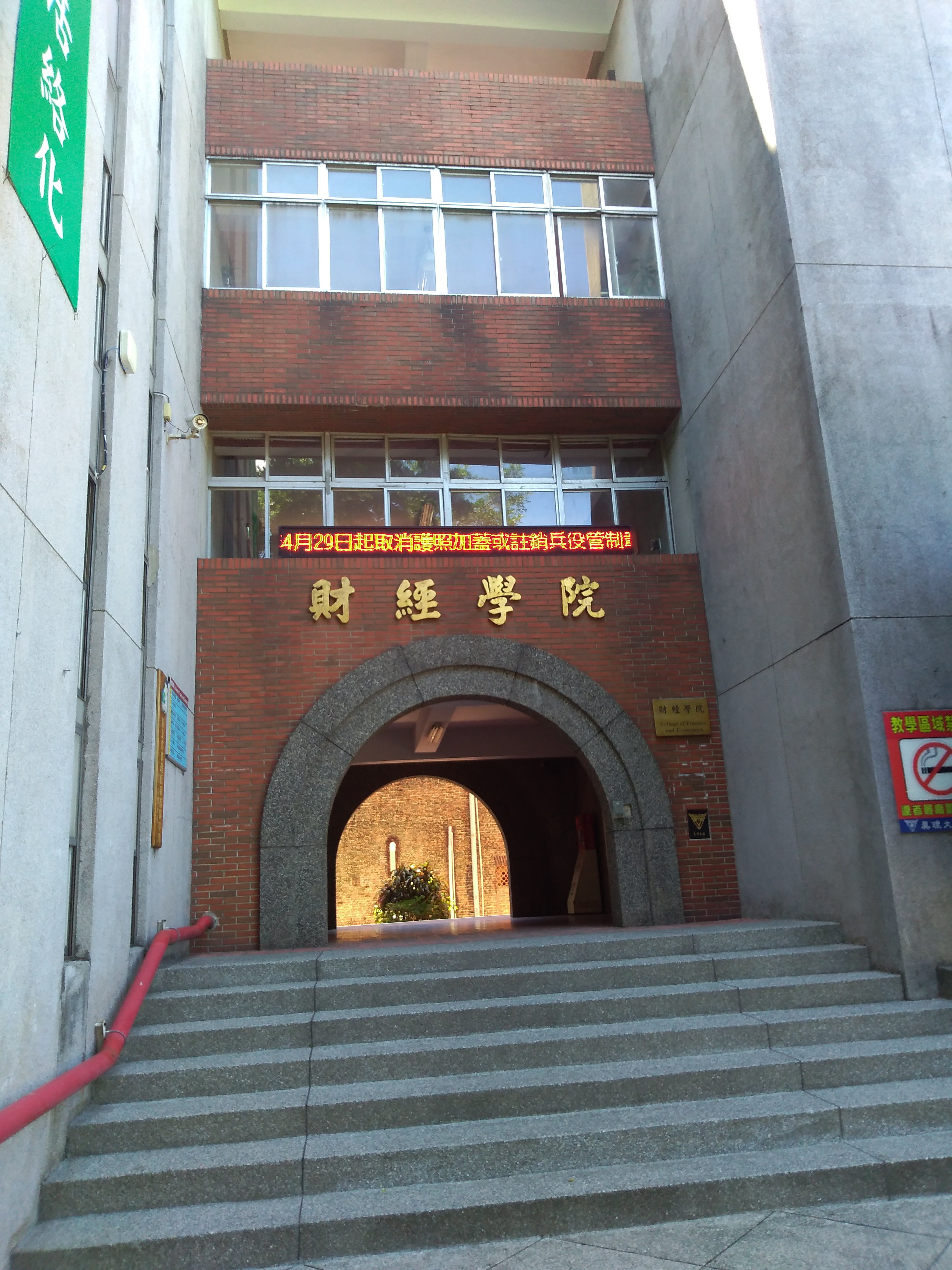 Aletheia University college of Finance and Economics. The Entrance is next to School Gate.